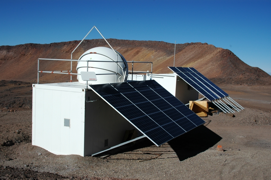 The Receiver Lab Telescope (RLT) near Cerro Sairecabur, Chile. The telescope operates on 5525m in frequency ranges above 1THz.